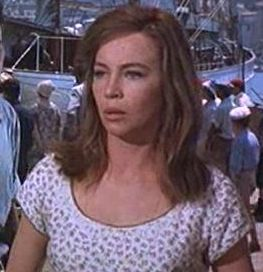 Cropped screenshot of Leslie Caron from the trailer for the film Fanny